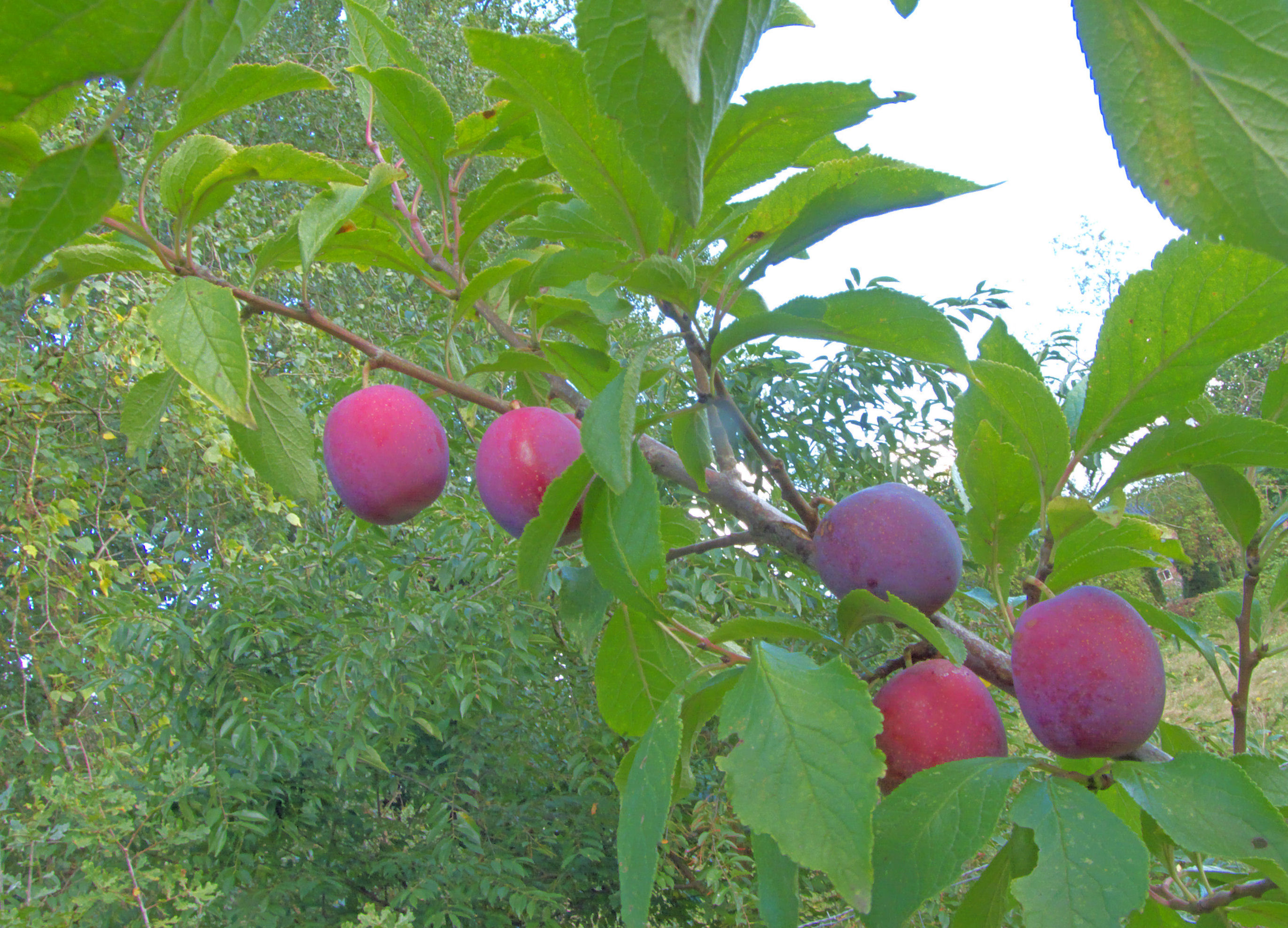 Prunus domestica 'Anna_späth'